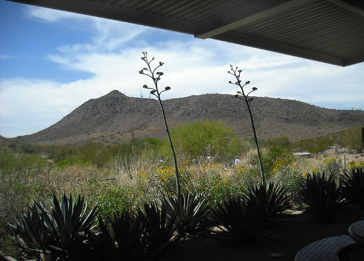 Shaw Butte as seen from the Visitor Center of the North Mountain Preserve in Phoenix.